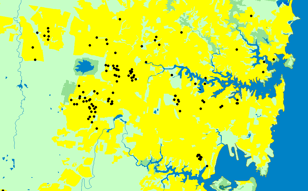 One dot indicates 100 Croatia born Sydney residents